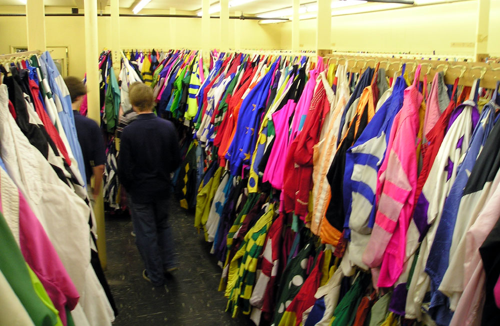 Racing Silks in the silks room at Santa Anita Park. Taken by Ellen Levy Finch (User:Elf) Feb 11, 2006.